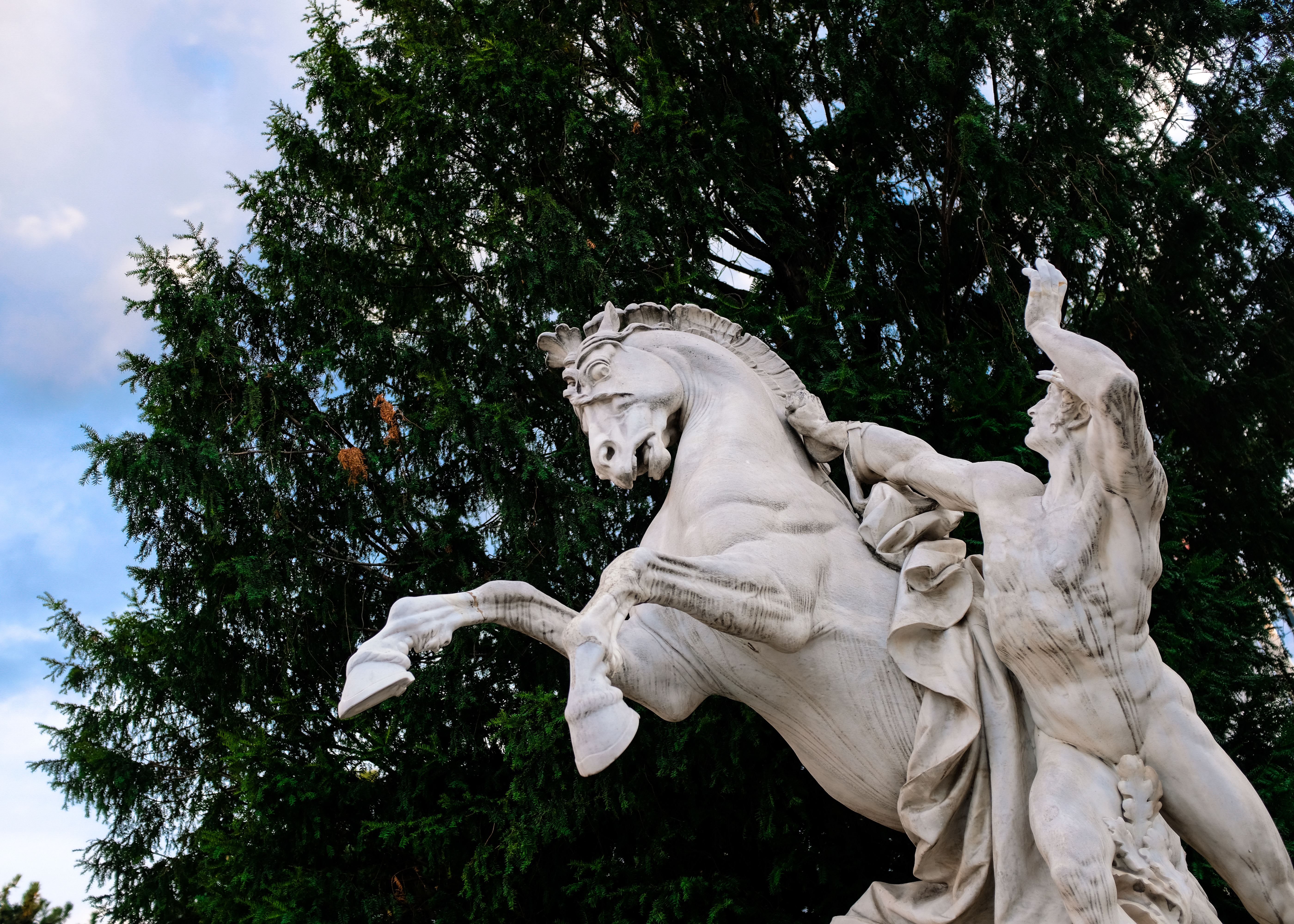 One of the marble sculptures Rossebändiger by Theodor Friedl at Maria-Theresien-Platz in Vienna.